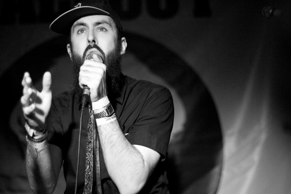 Scroobius Pip live at The Camden Crawl, London 2007